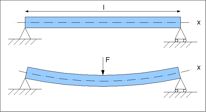 A simply supported beam before and after the application of a force.